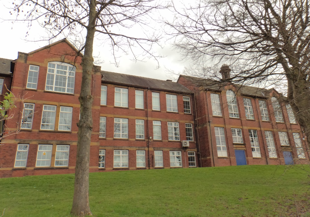 An image of the 1928 extension of Ossett Academy (formerly Ossett School), taken on 23rd March 2019.